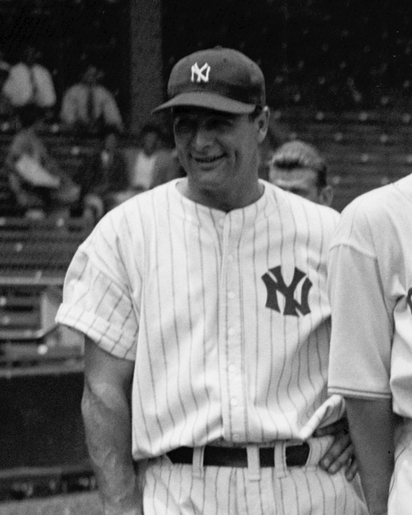 Lou Gehrig of the New York Yankees, cropped from a posed picture of 1937 Major League Baseball All-Stars in Washington, DC.